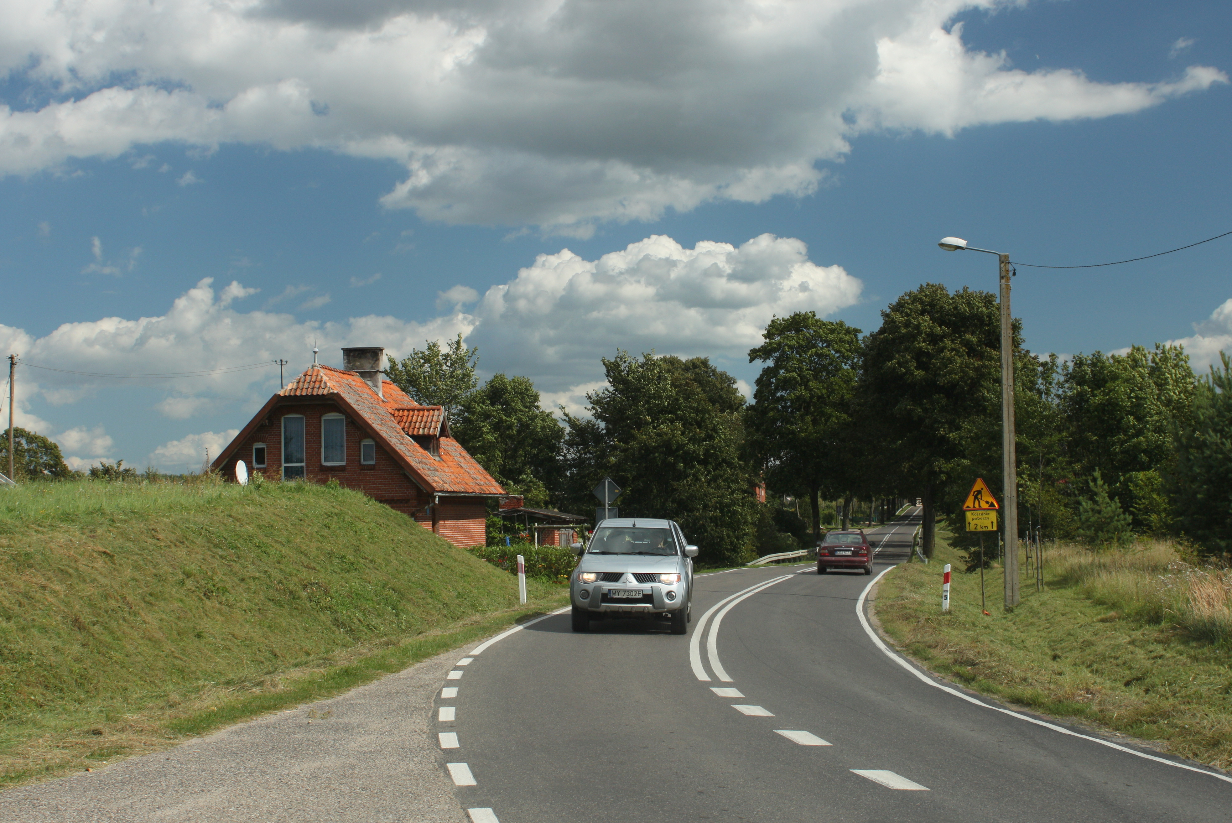 Building in Probark.